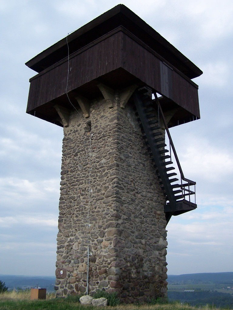 Vartowka tower above Krupina town, Slovakia